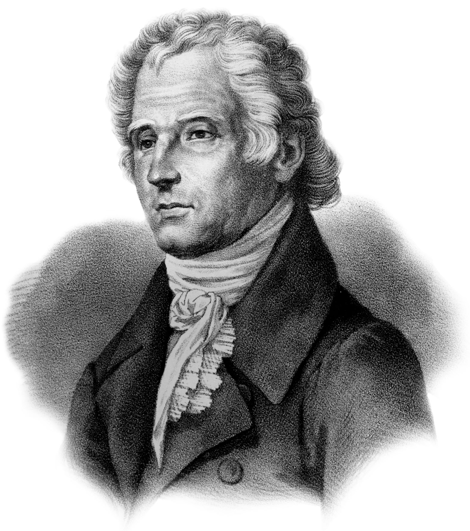 Dmitry Stepanivich Bortniansky